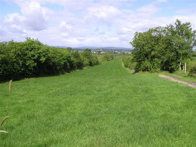 Ballaghbeddy Townland Looking west